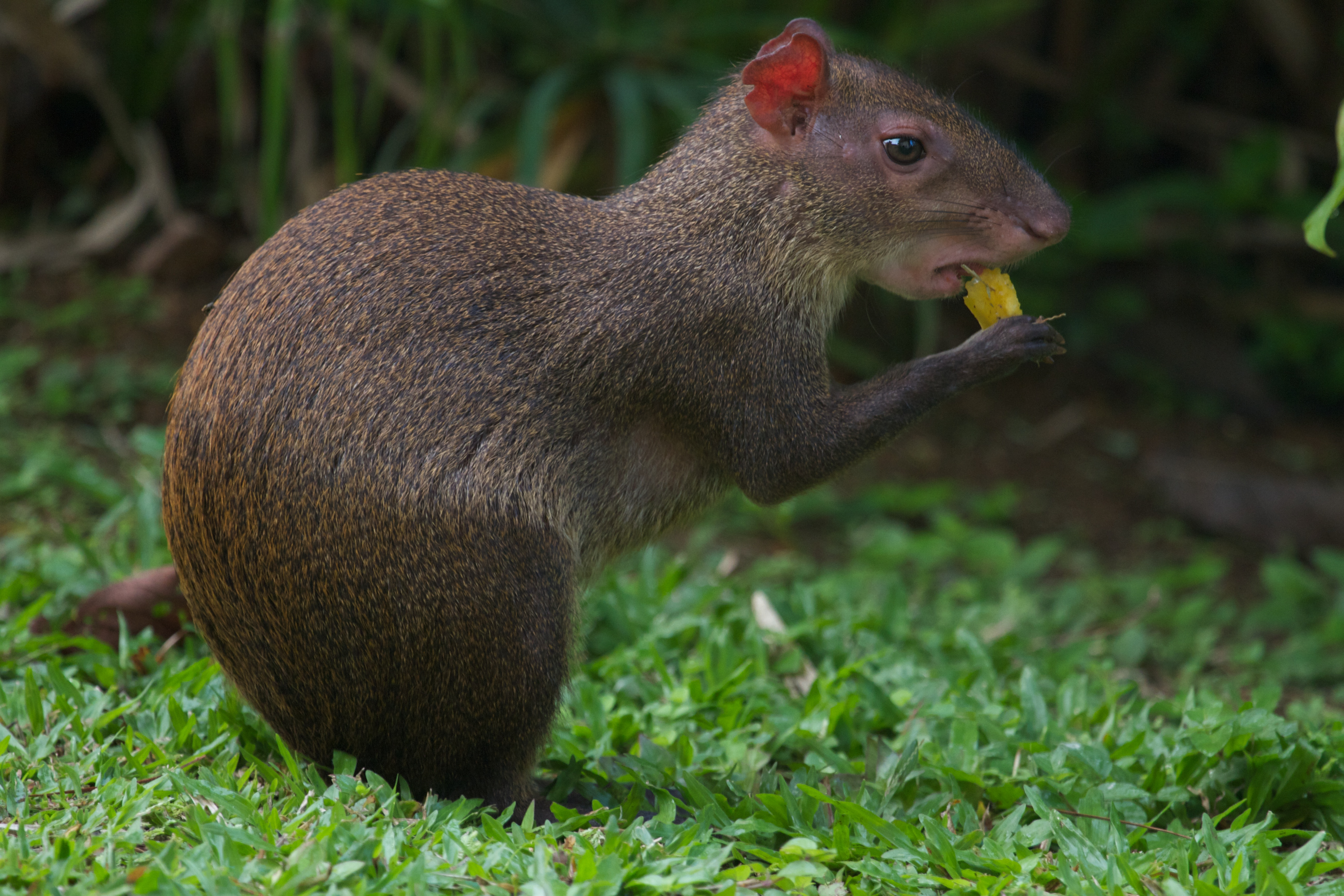 Agouti